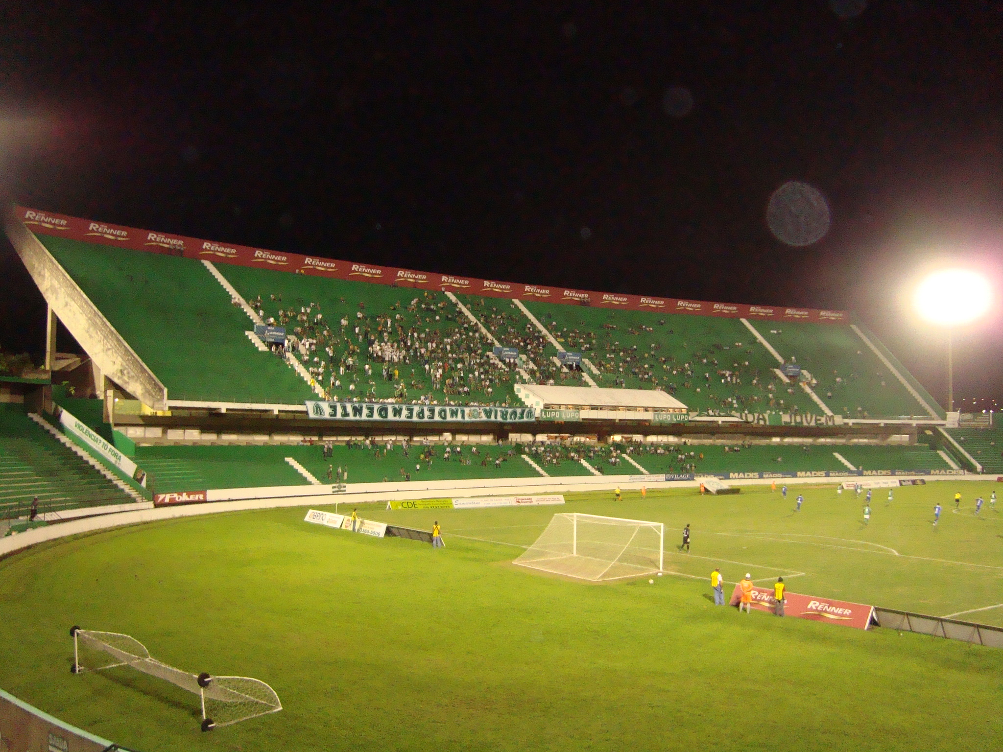 Brinco de Ouro da Princesa stadium, during a match between Guarani and São José EC. The game ended 1x0 for the home team.